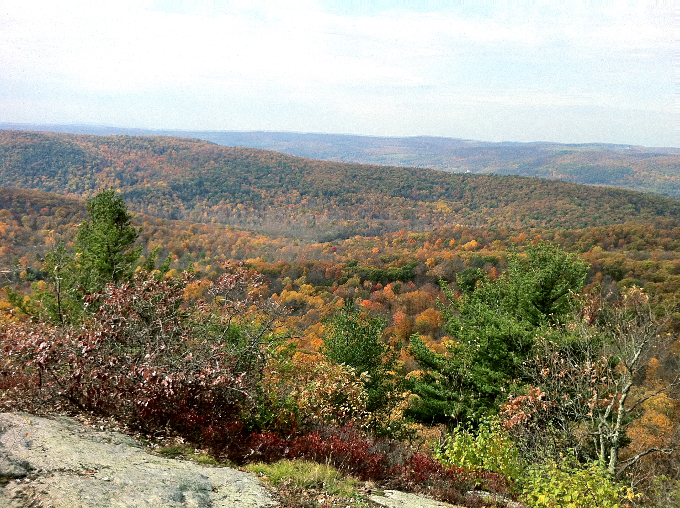 View from Cobble Mountain summit with New York State's Catskill Mountains in background. In Connecticut's Macedonia Brook State Park.